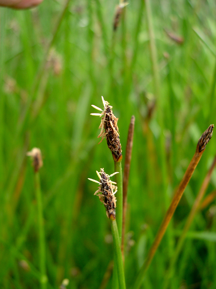 Eleocharis macrostachya at Humboldt Bay National Wildlife Refuge Complex, California, USA